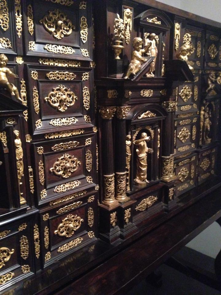 Baúl Artesanal de Isidiro Fabela